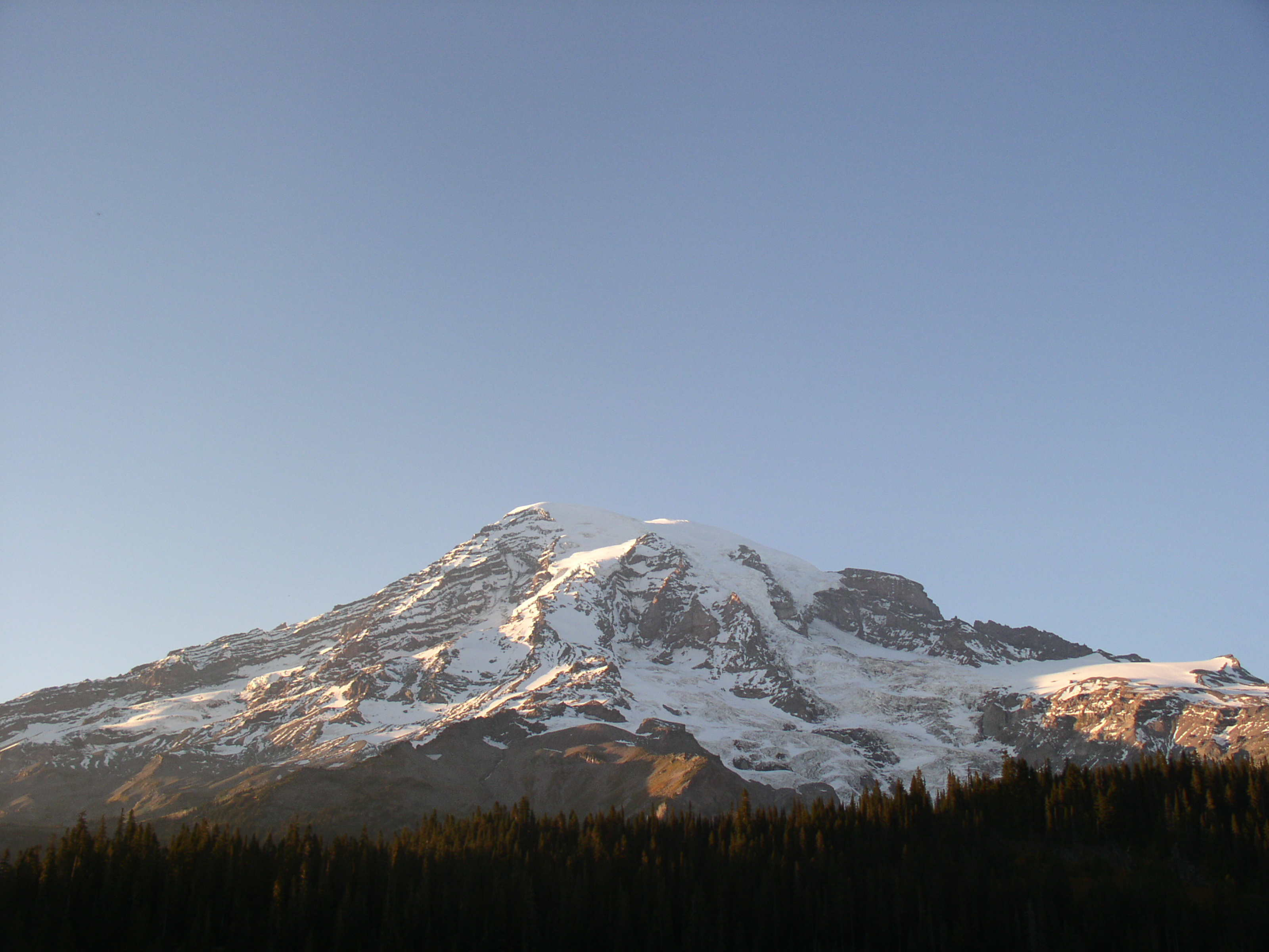 Mount Rainier, September 26, 2004 View from the south near sunset, likely from Paradise Road near Paradise.